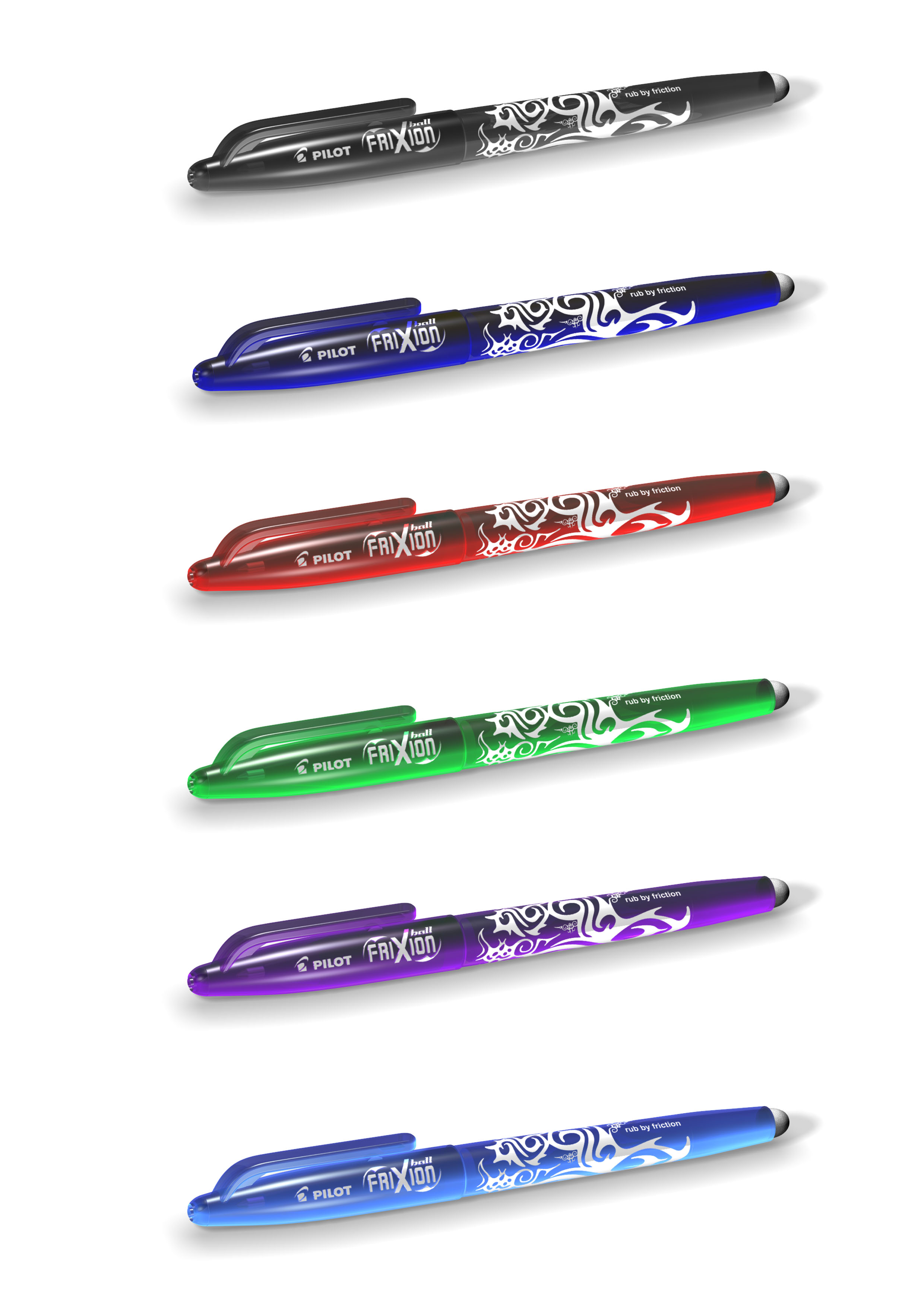 Frixion ball